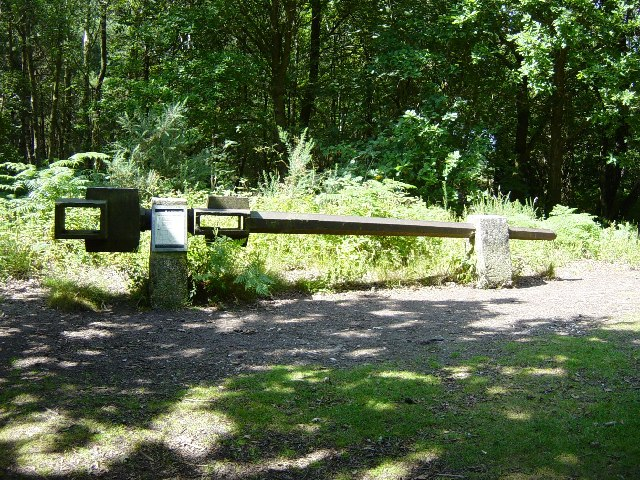 Windshaft of a windmill